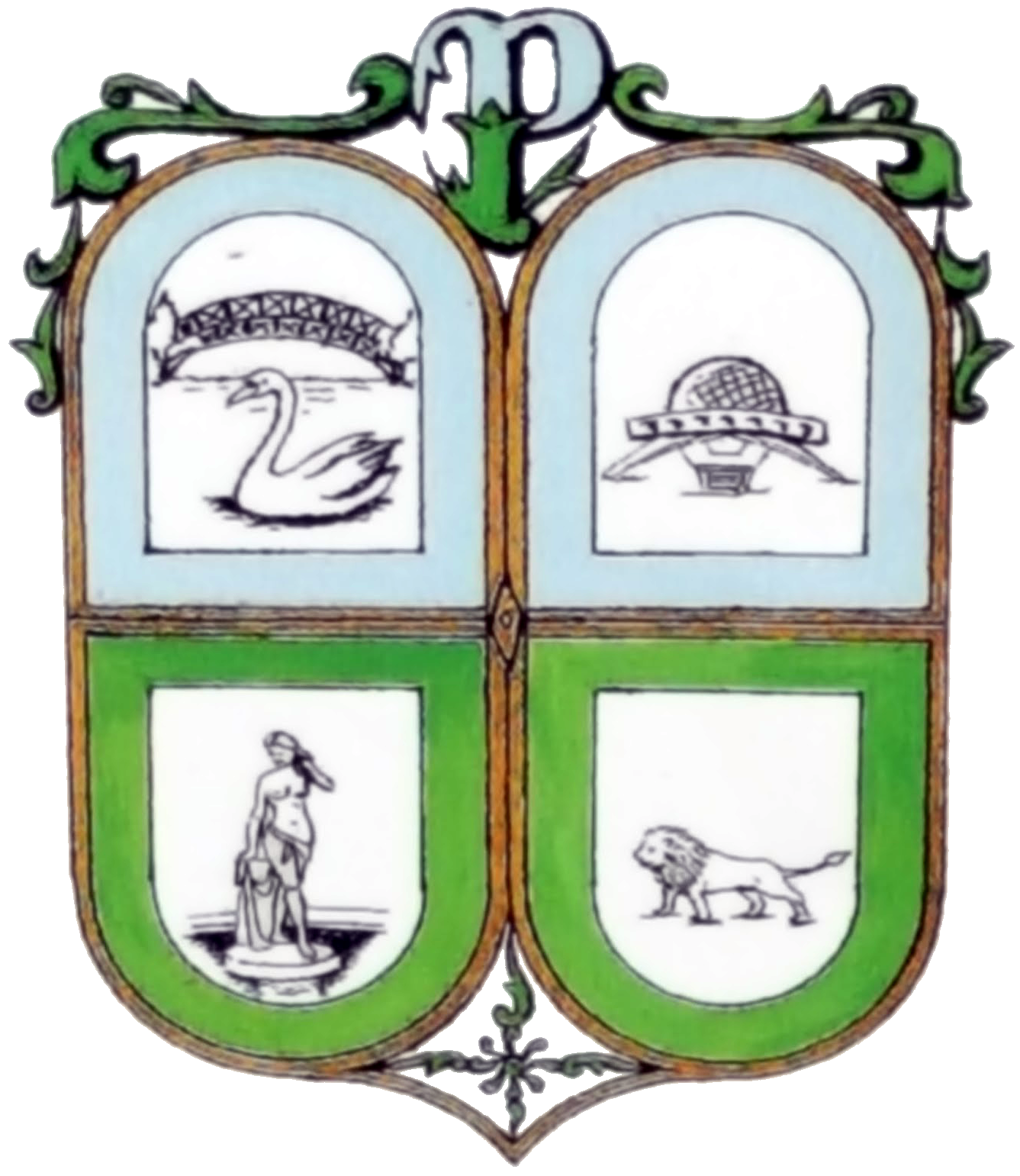 Official emblem of the Buenos Aires' barrio of Palermo.